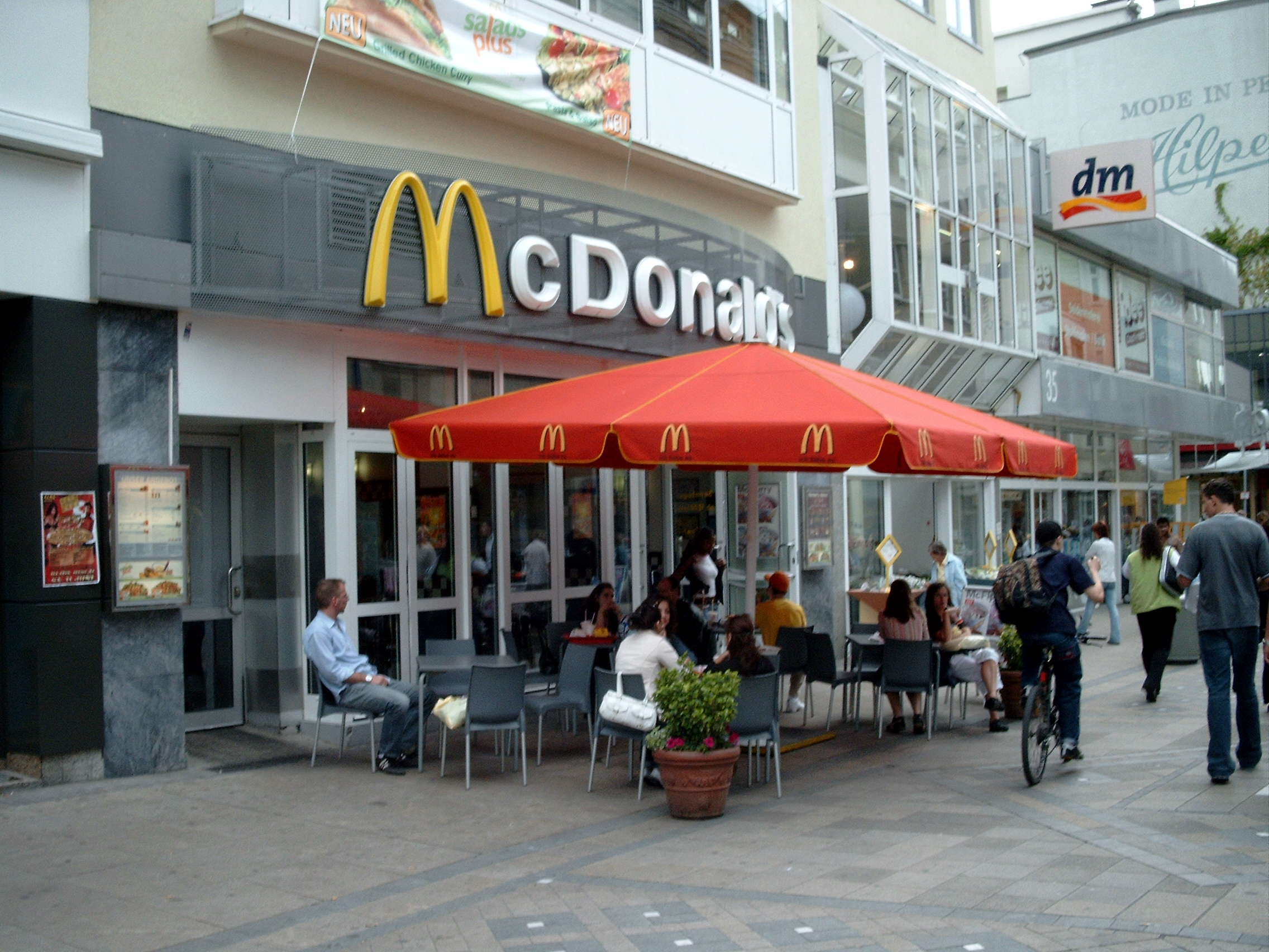 McDonalds Store in Dortmund, Germany